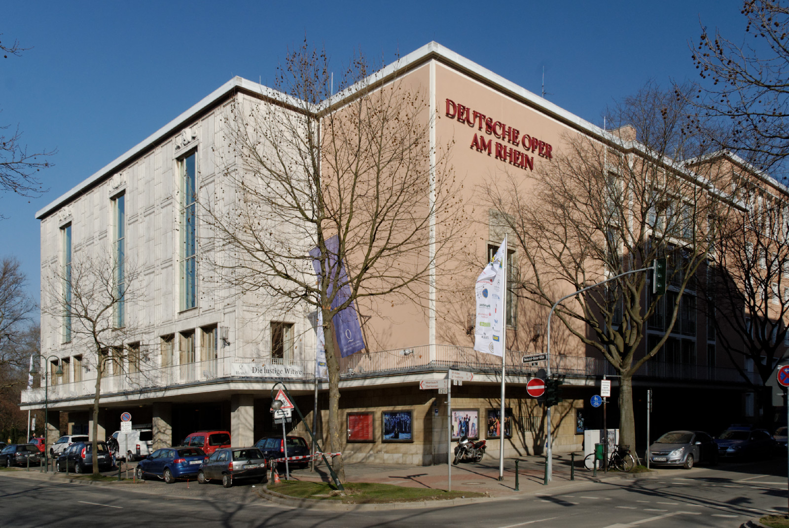 Opera house in city centre, Düsseldorf, Germany